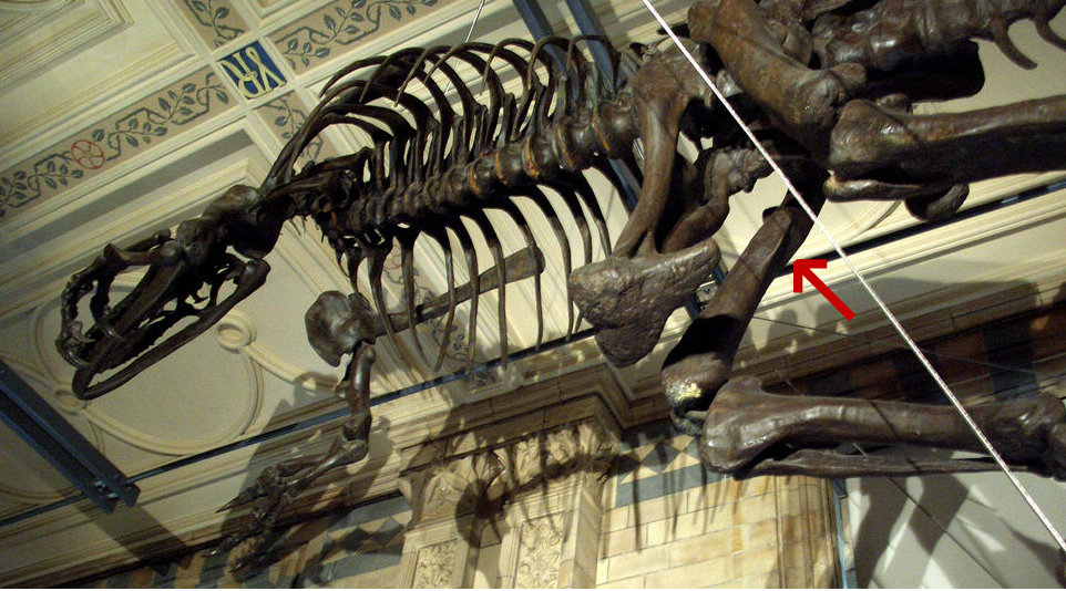 The image is apparently from a Natural History Museum in London, and one of the few pictures on Flickr clearly illustrating the fourth trochanter.